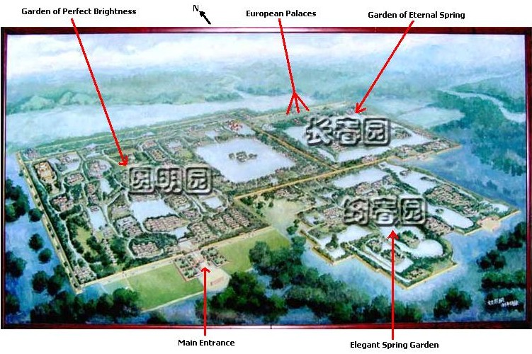 Plan of the Old Summer Palace buildings and gardens — Beijing. self-designed